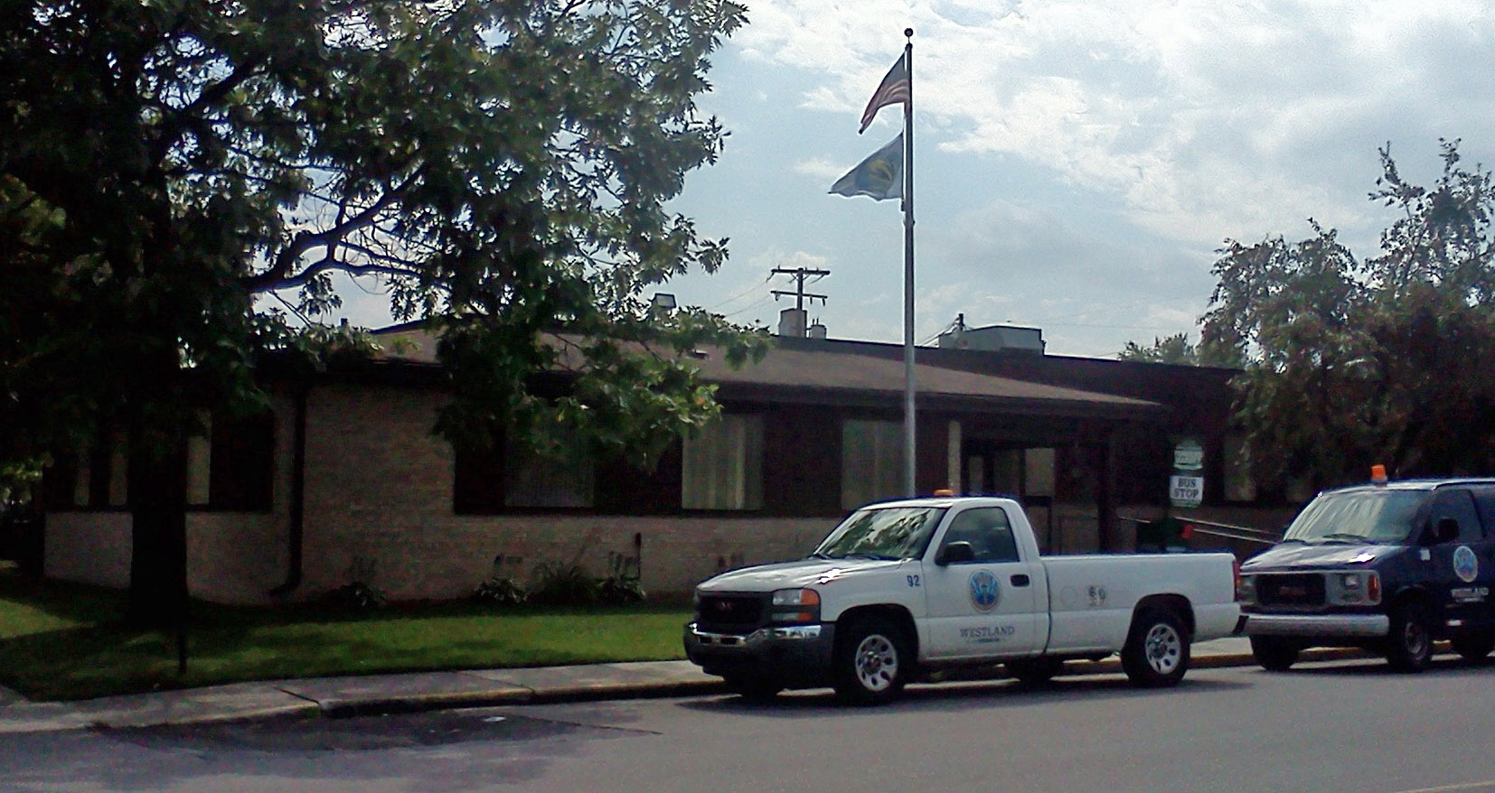 Community Center in Norwayne Historic District, Westland MI